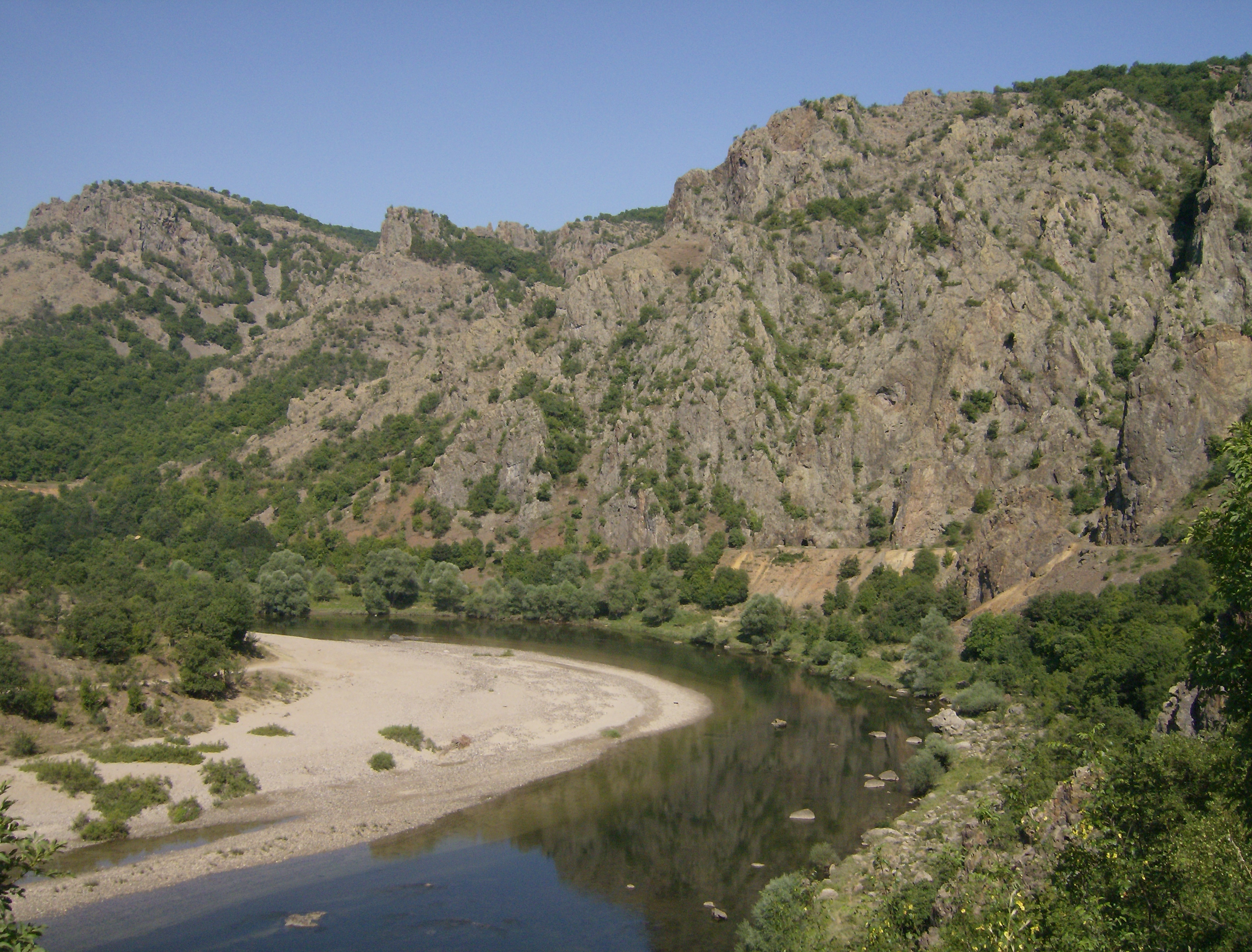 Arda River